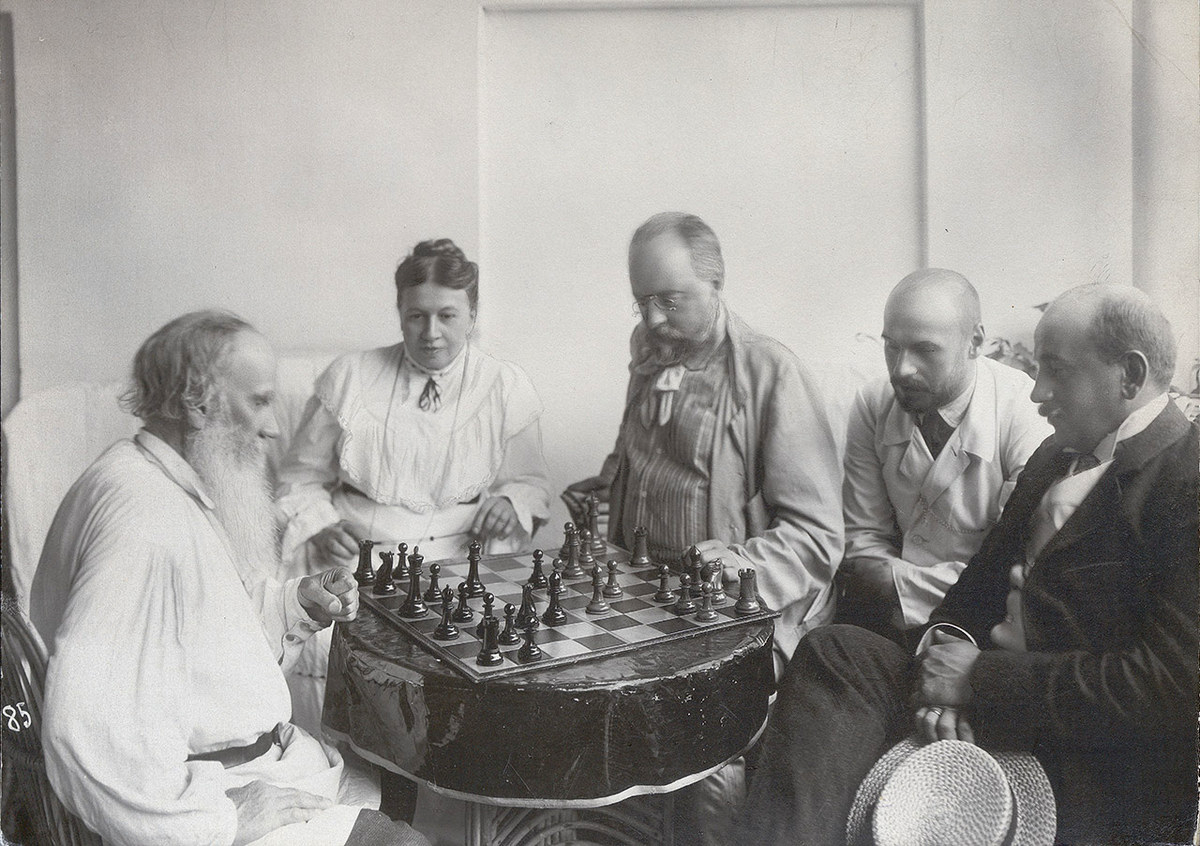 Tolstoy playing chess against his son-in-law Michel Souchotine, with his wife and two sons (Andre and Michel) watching.